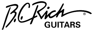 Logo of B.C. Rich Guitars, a guitar manufacturer of the United States.